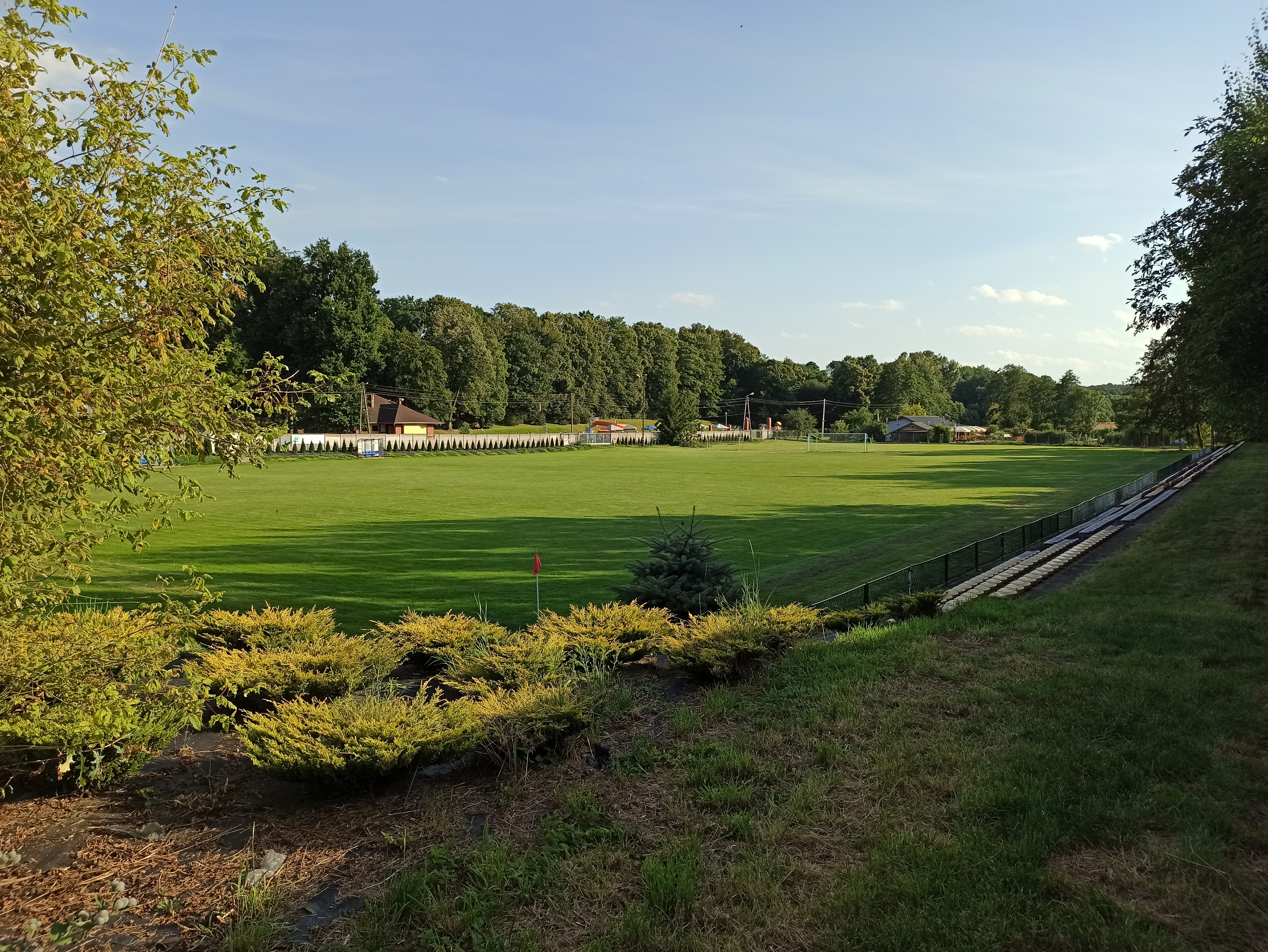 Biała, Poland.